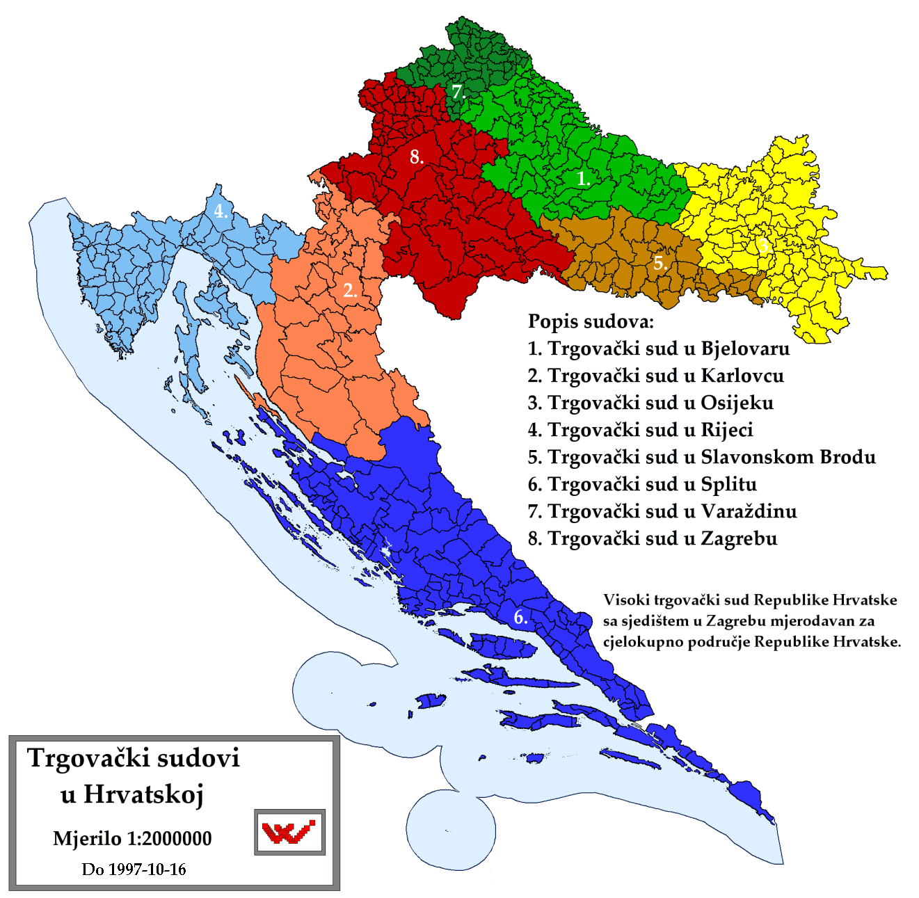 Commercial courts of the Republic of Croatia